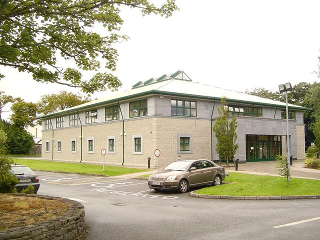 Water Services and Motor Tax Offices Part of Kerry County Council campus State of the art (in 2000) energy efficient building. Geothermal space heating and cooling. Solar water heating. Automatic switching of lighting. Automatic atrium vents.